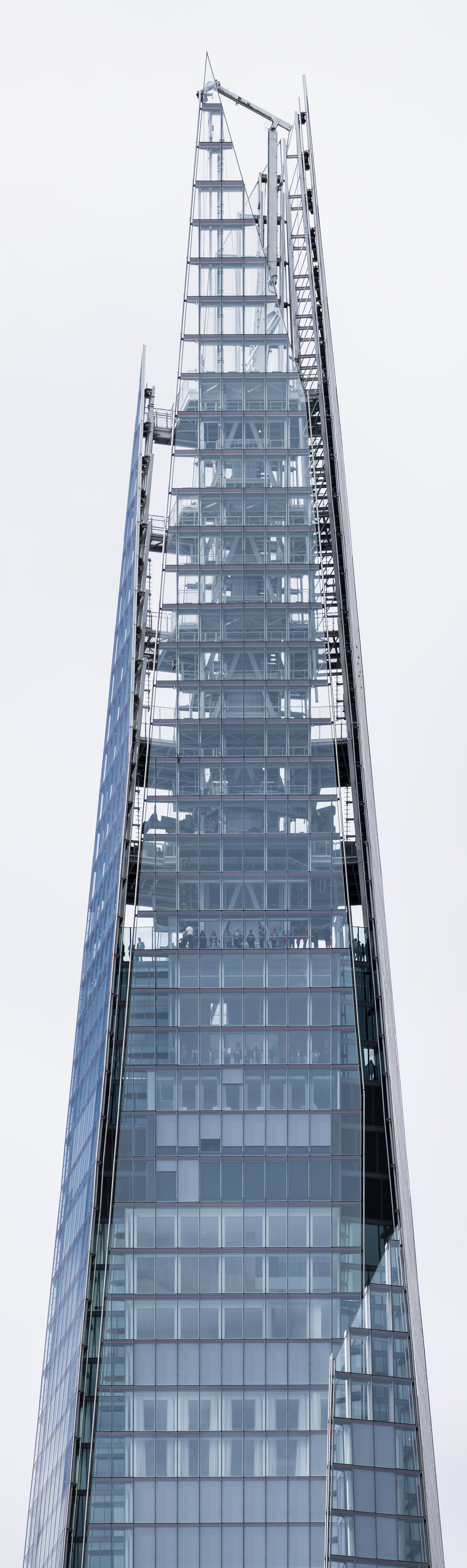 The top of The Shard.